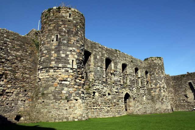 The North Gatehouse of Beaumaris Castle Like the rest of the castle, the north gatehouse was left incomplete. The original plan was to have another storey with five windows flanked by turrets rising to twice their current height.